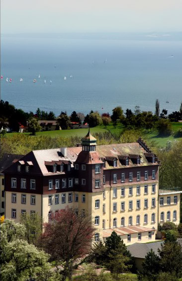 Spetzgart campus of Schule Schloss Salem in Überlingen, Germany. More pictures here.